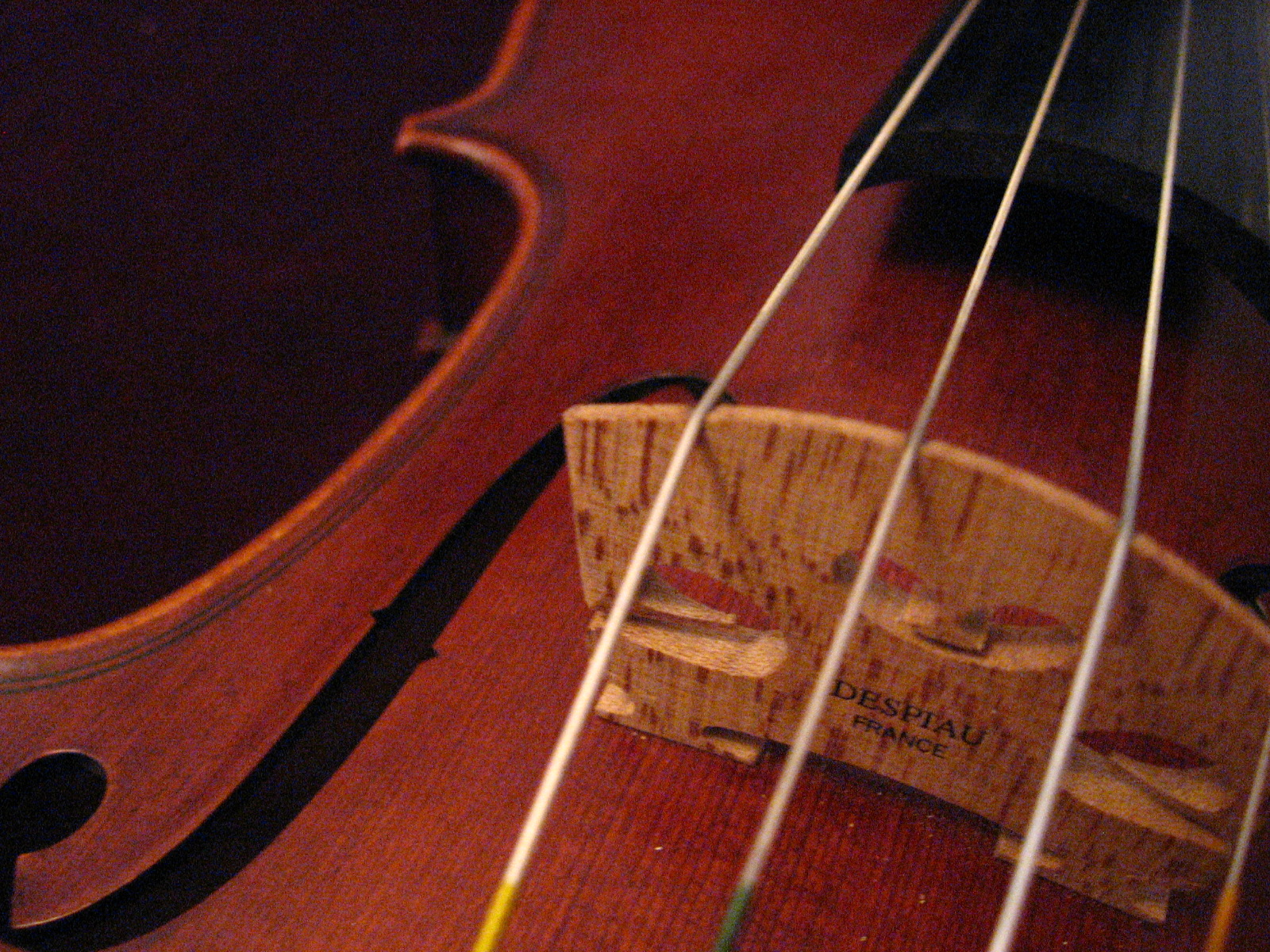 close up of violin